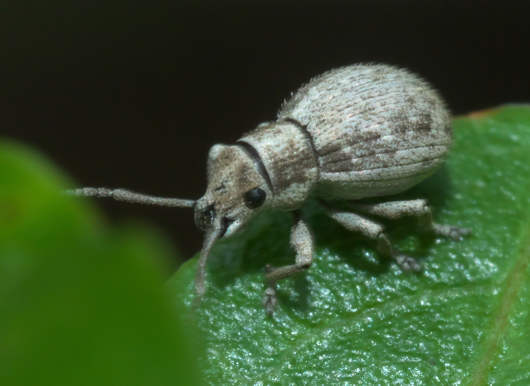 Neoptochus adspersus, Tribe: Oriental Broad-nosed Weevils, ID Confidence: 85